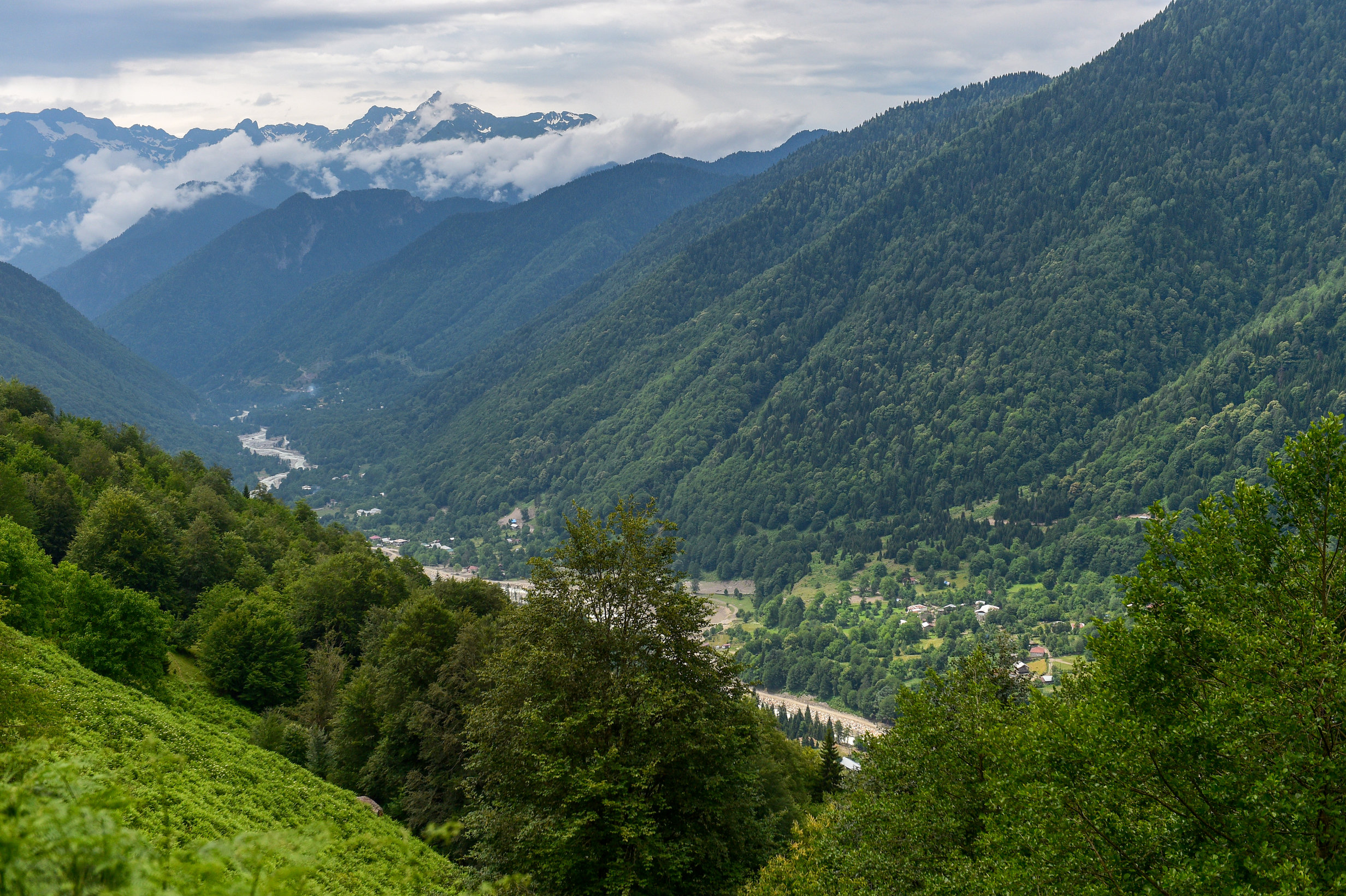 View over Nenskra Valley